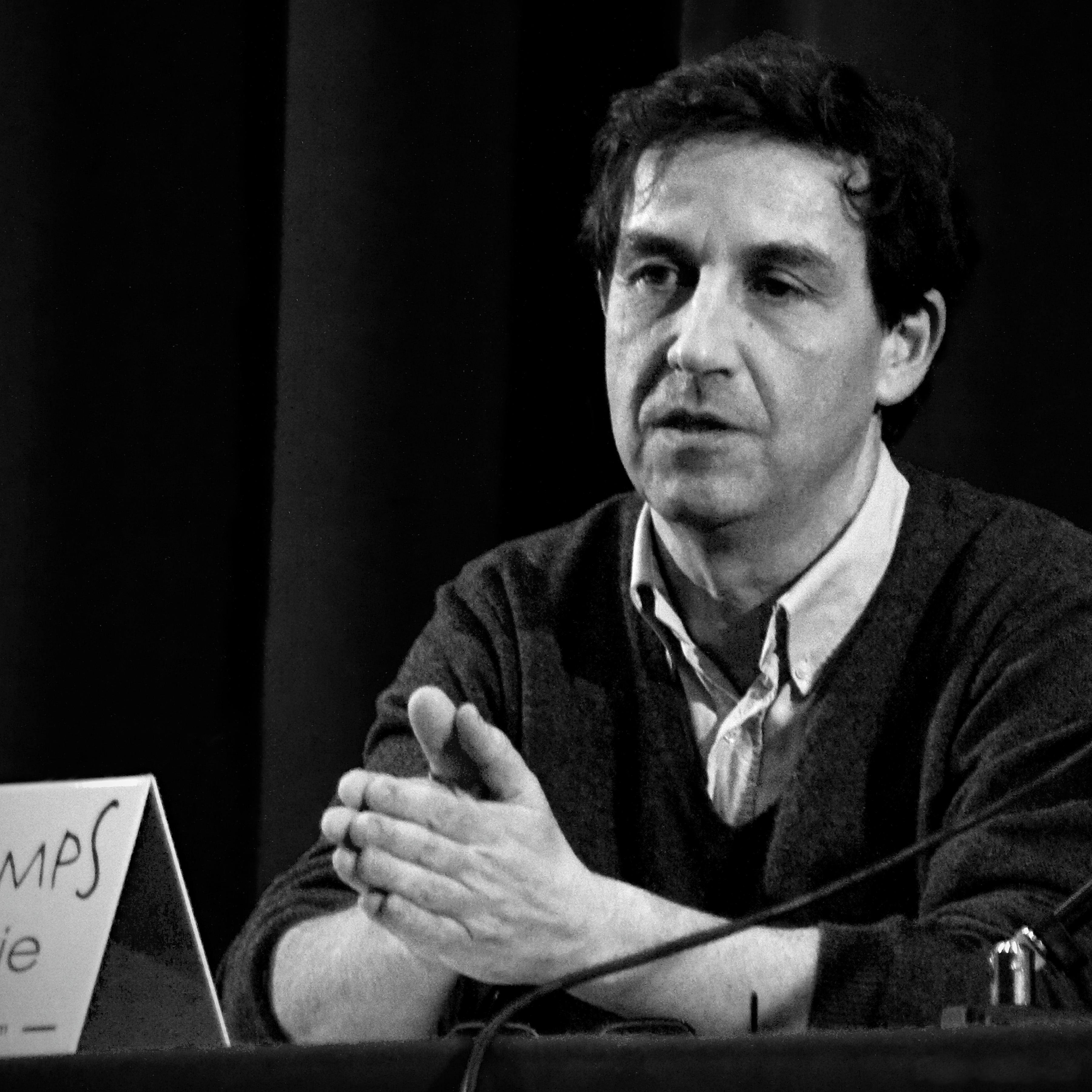 Emmanuel Todd, between a meeting in Montpellier.